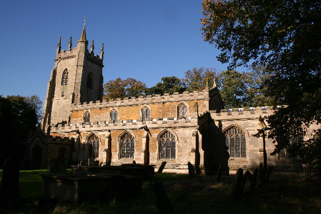 St Mary's parish church, Marshchapel, Lincolnshire, seen from the south